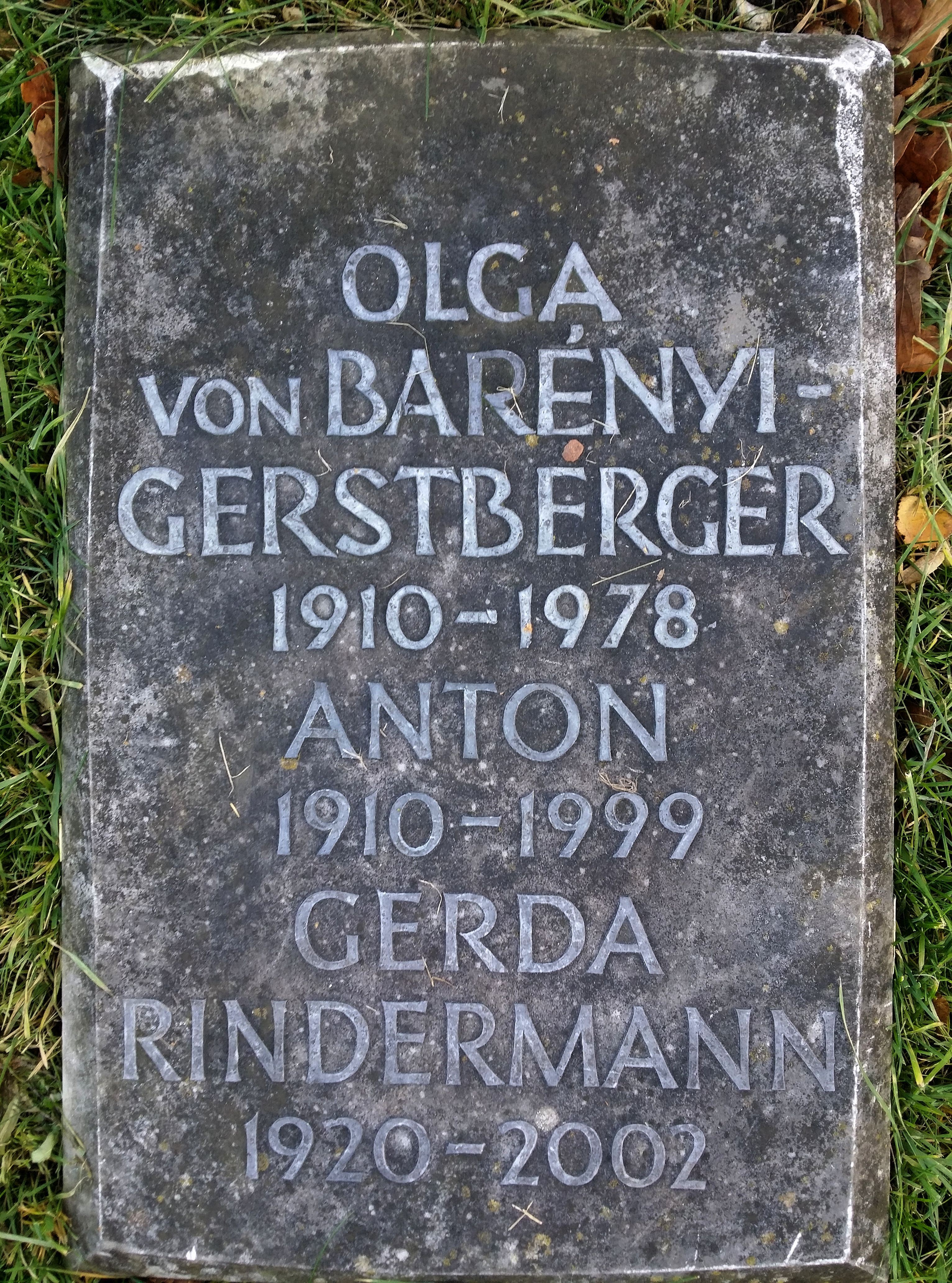 The gravestone of Olga Barényi, Nordfriedhof München